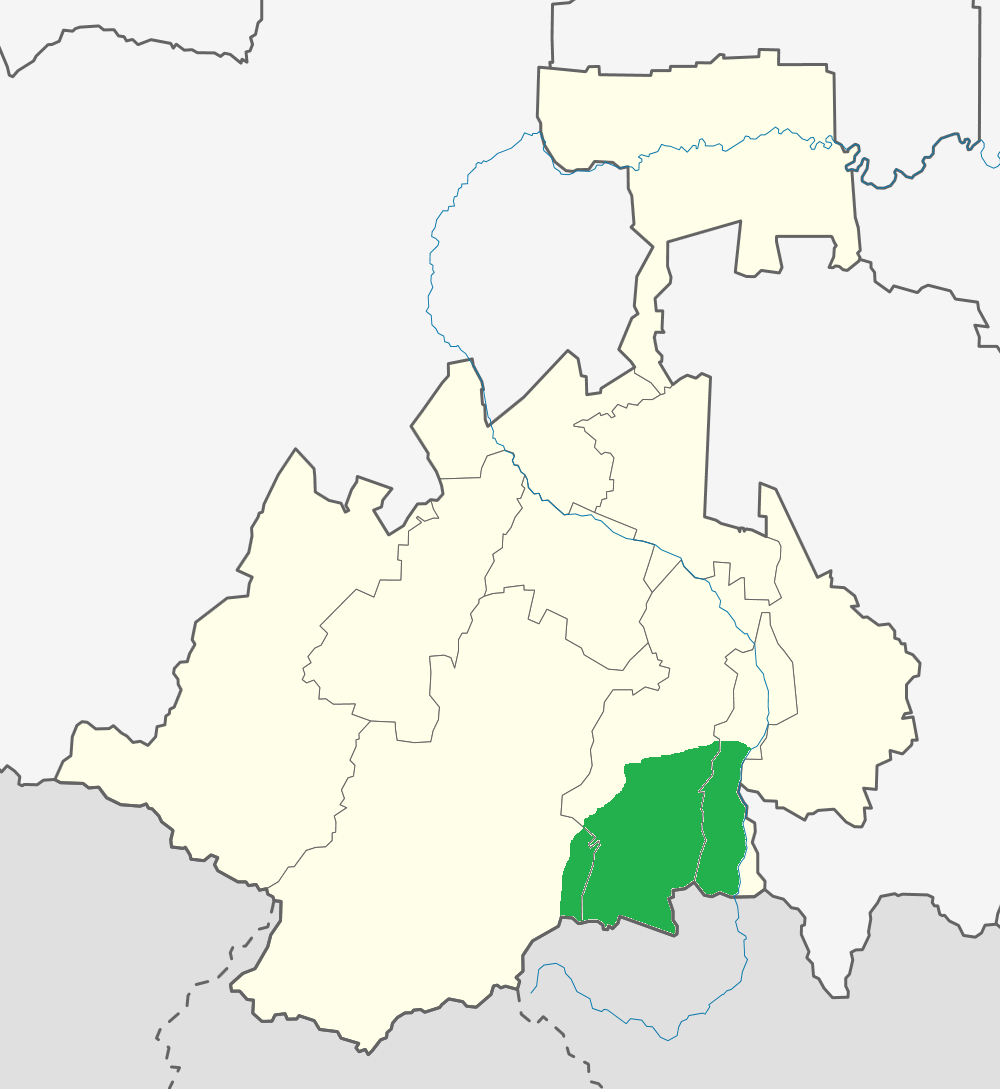 Tagiata in North Ossetia-Alania